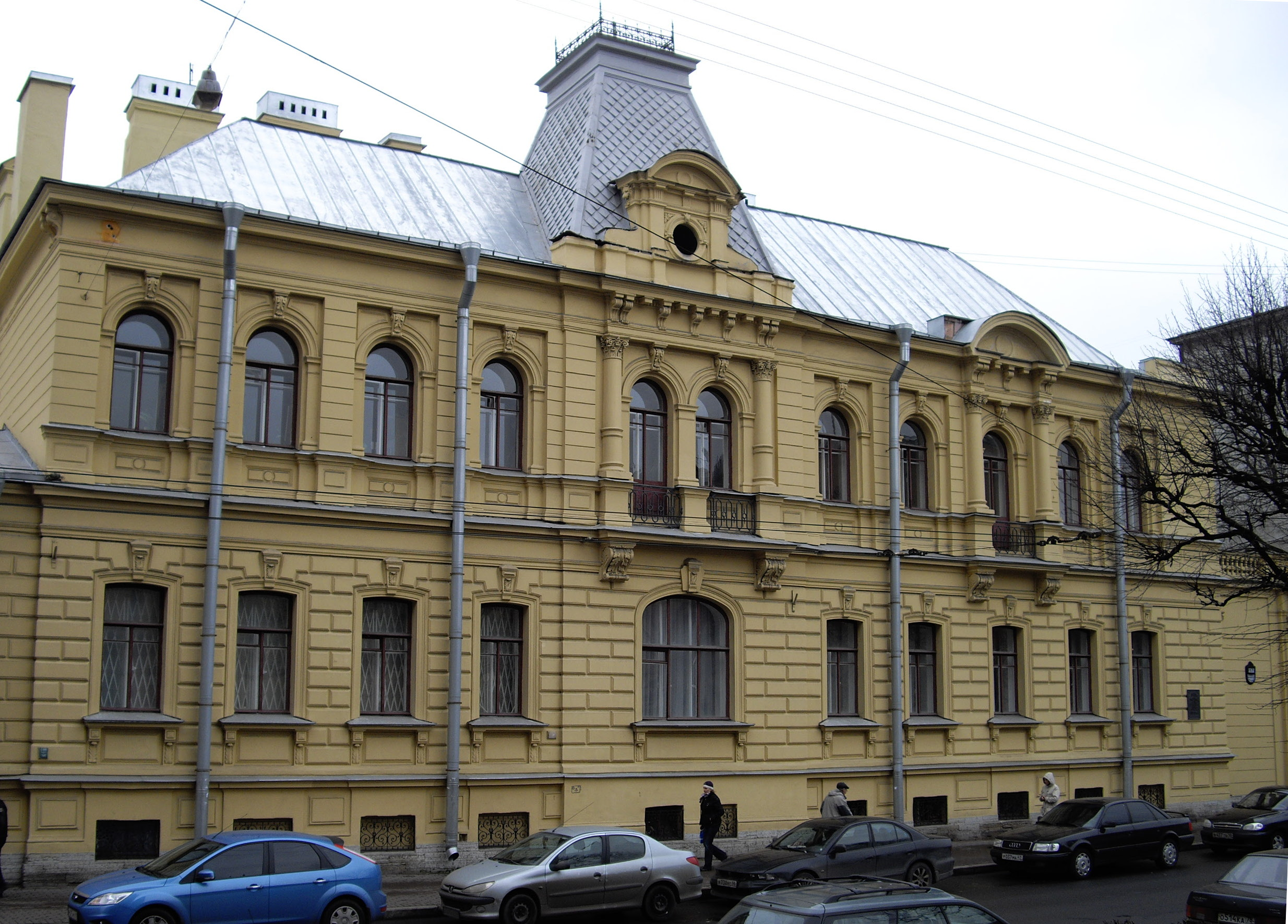 17, Bolshaya Monetnaya street, Saint-Petersburg, Russia. House of A. S. Sleptsova, later of prince K. A. Gorchakov, presently the building of Petrograd Side municipal administration. Architects N. A. Arkhangelsky (1893-1895), A. R. Gaveman (1907-1910).